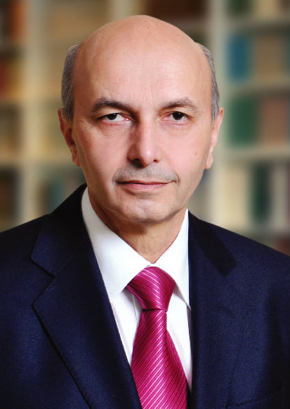 Republic of Kosovo Prime Minister